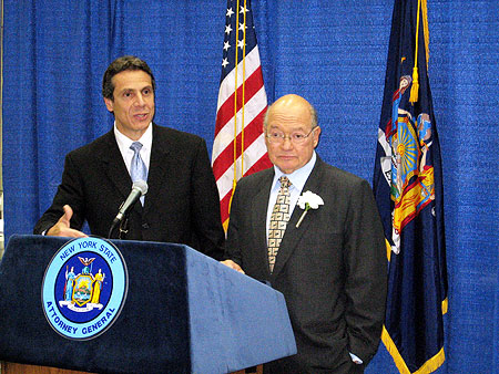 Congressman Gary Ackerman and Attorney General Andrew Cuomo speaking to reporters after the hearing.